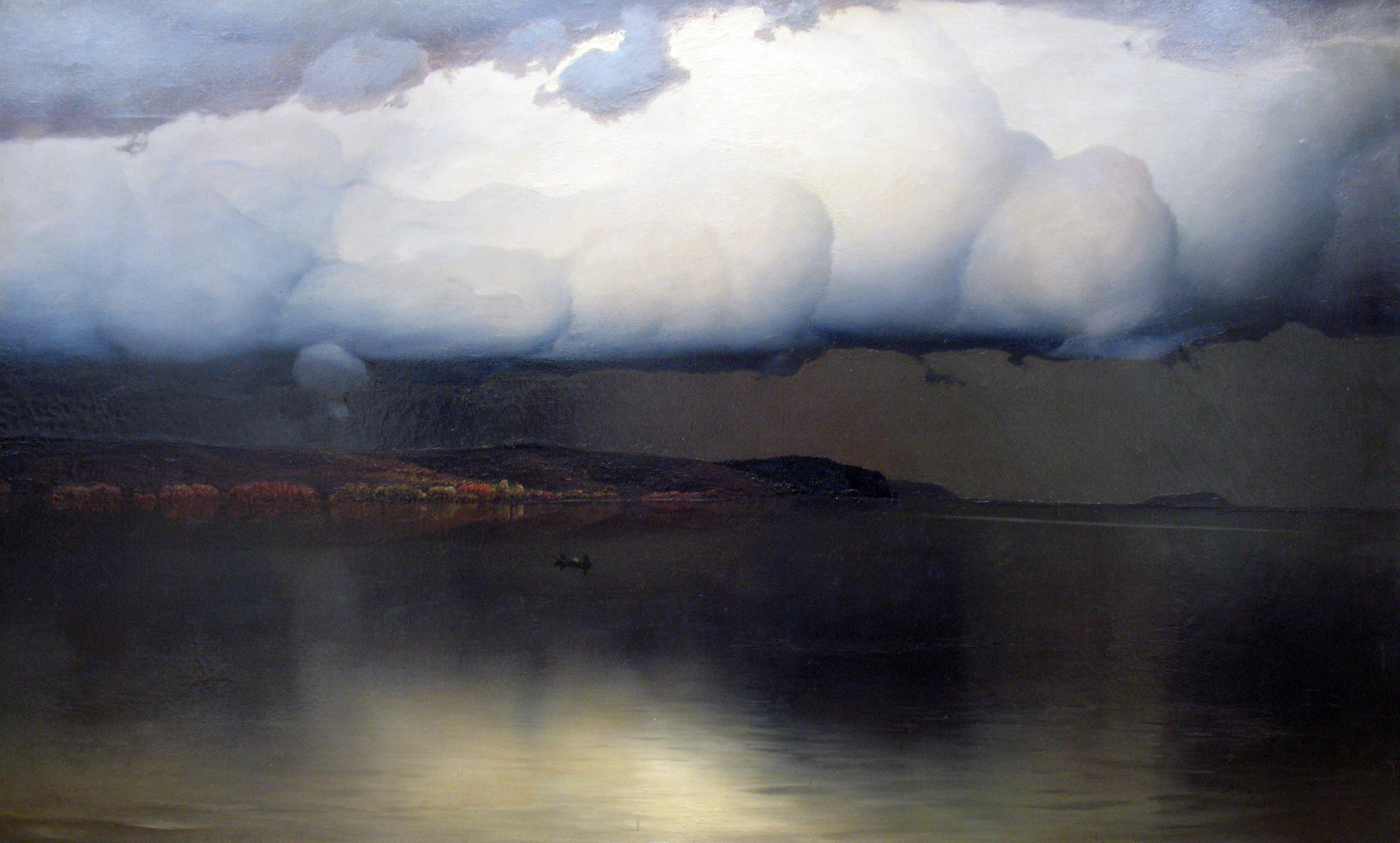 Became silence / Silence has settled / Quieted down